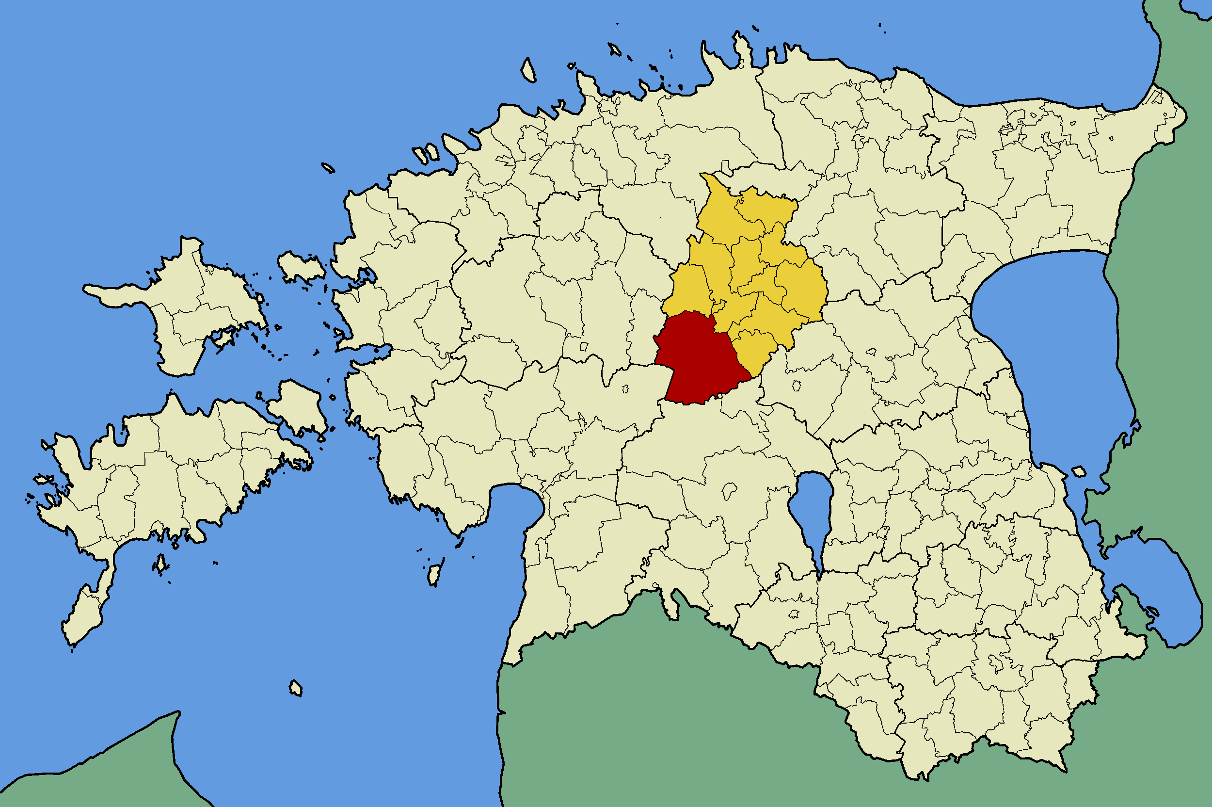 Map of Estonia with borders of municipalities (parishes). Järva county and Türi municipality emphasized.